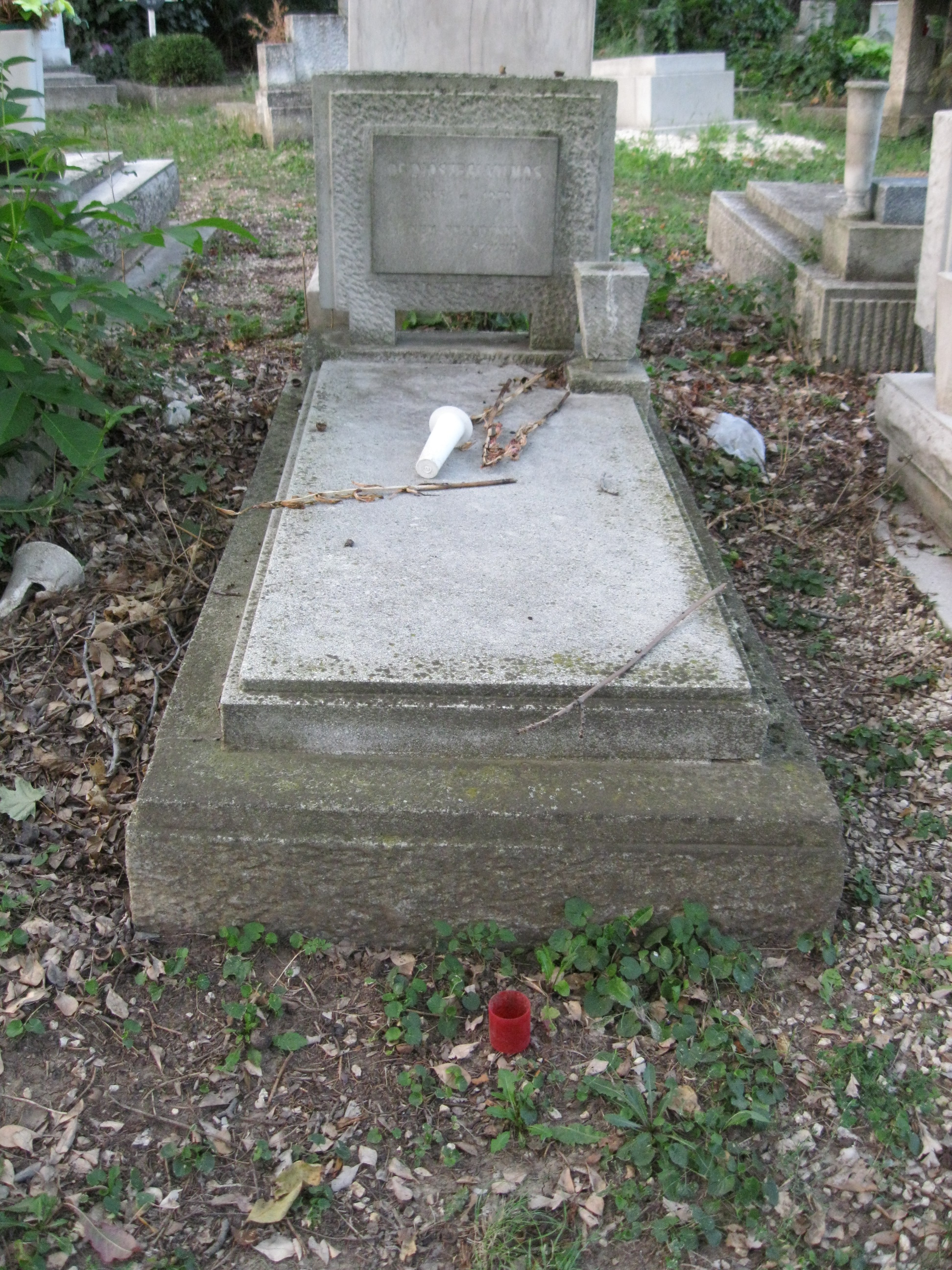 Tomb of Vilmos Diószegi in Farkasréti Cemetery [11/1-1-450]